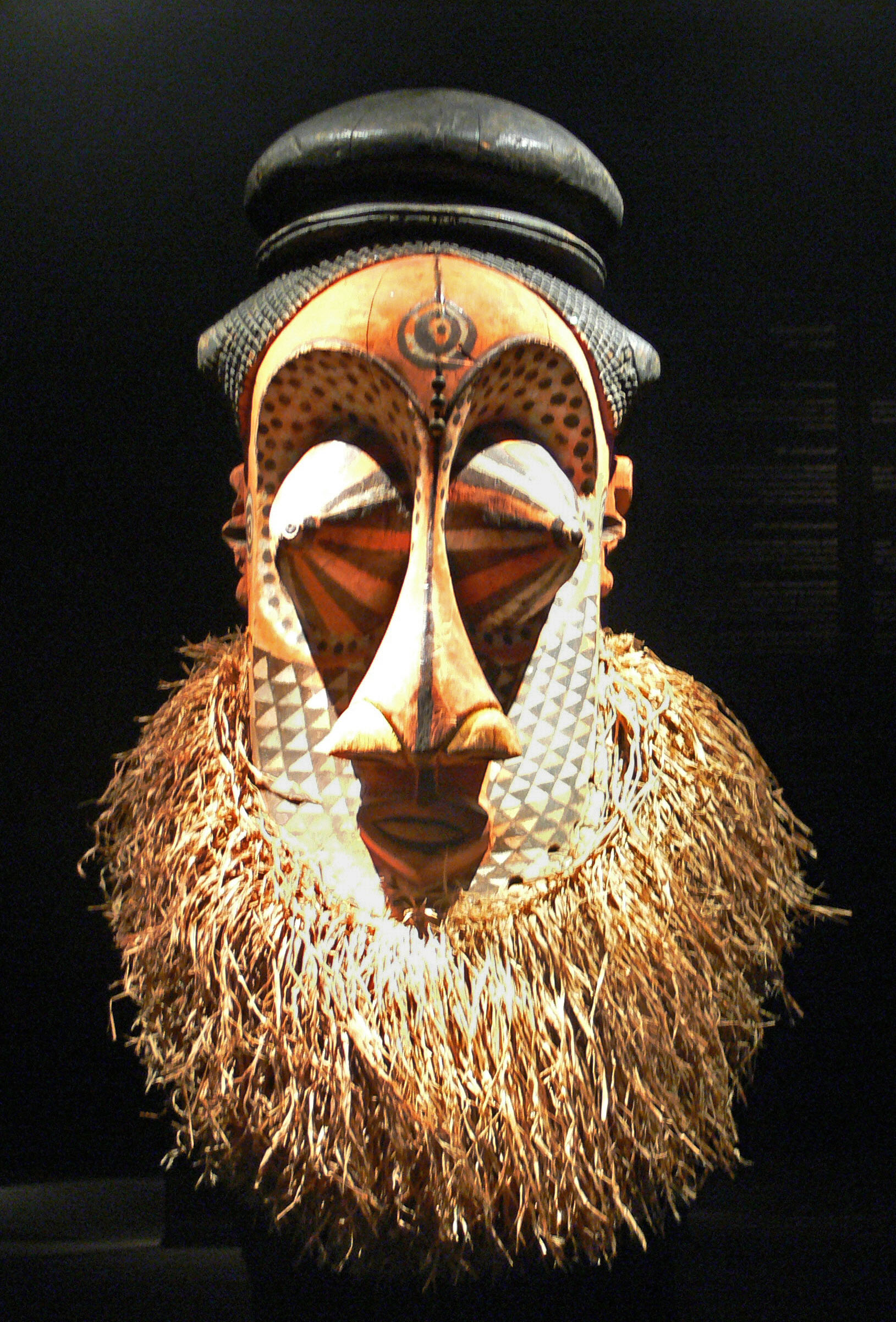 Helmet mask mulwalwa from the Democratic Republic of the Congo. Southern Kuba, 19th or early 20th century. Wood, paint, Raffia palm bast, brass nails. Ethnological museum, Berlin-Dahlem (H. Salomon collection, acquired in 1910.